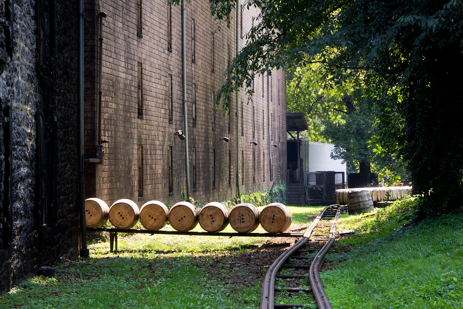 Recently filled barrels of Woodford Reserve bourbon outside of the rickhouse, where they will be stacked and stored during the aging process.Photo taken with an Olympus E-5 at the Woodford Reserve distillery, Versailles, Kentucky, USA.Cropping and post-processing performed with Adobe Lightroom.